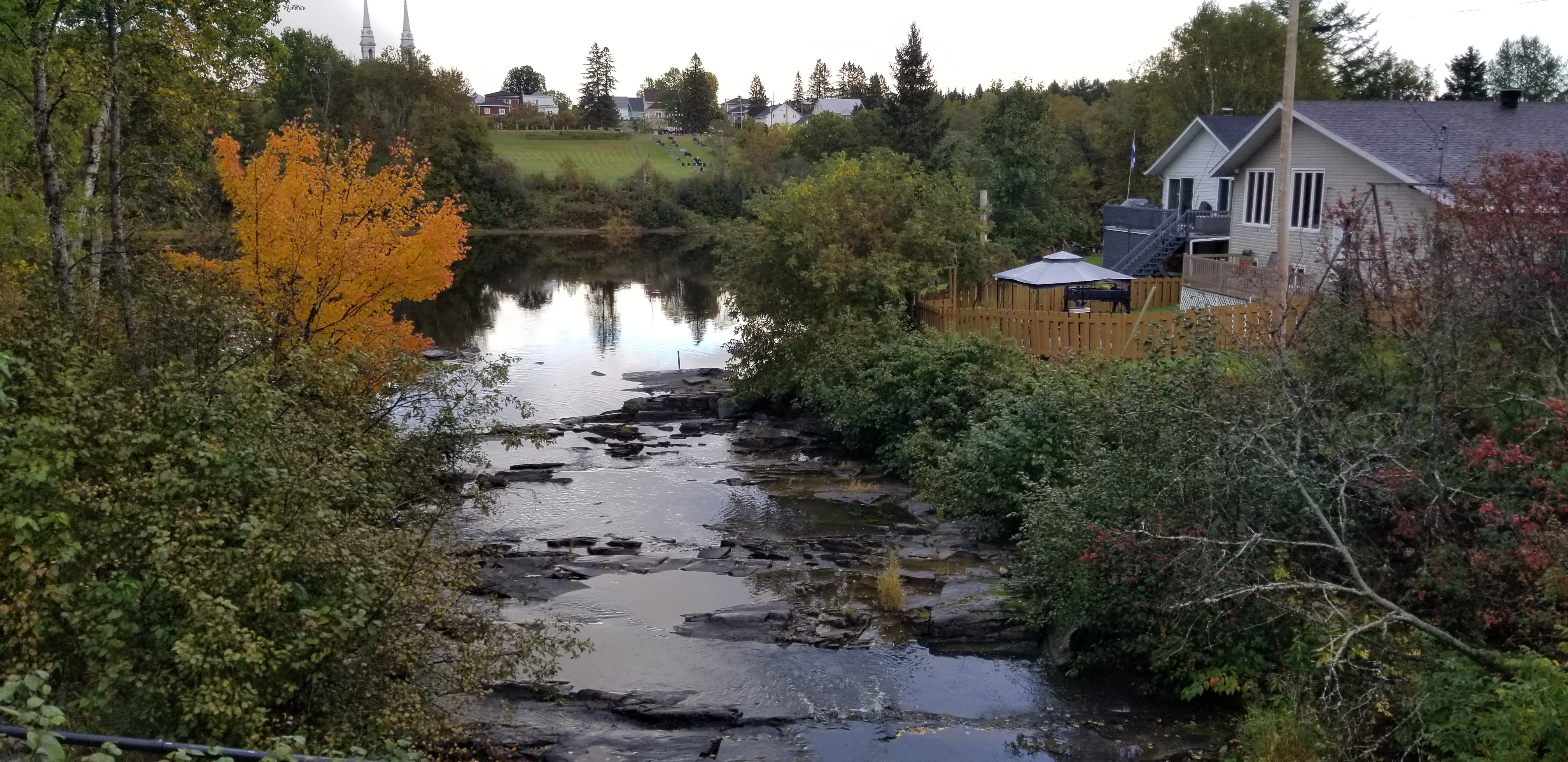 View of the mouth of the Pierre-Paul River in Saint-Adelphe from the bridge on Route 352, September 29, 2018. In the background: view of the village and the church.